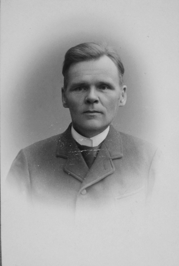 Photograph of the Finnish writer Heikki Kauppinen alias Kauppis-Heikki (1862–1920).